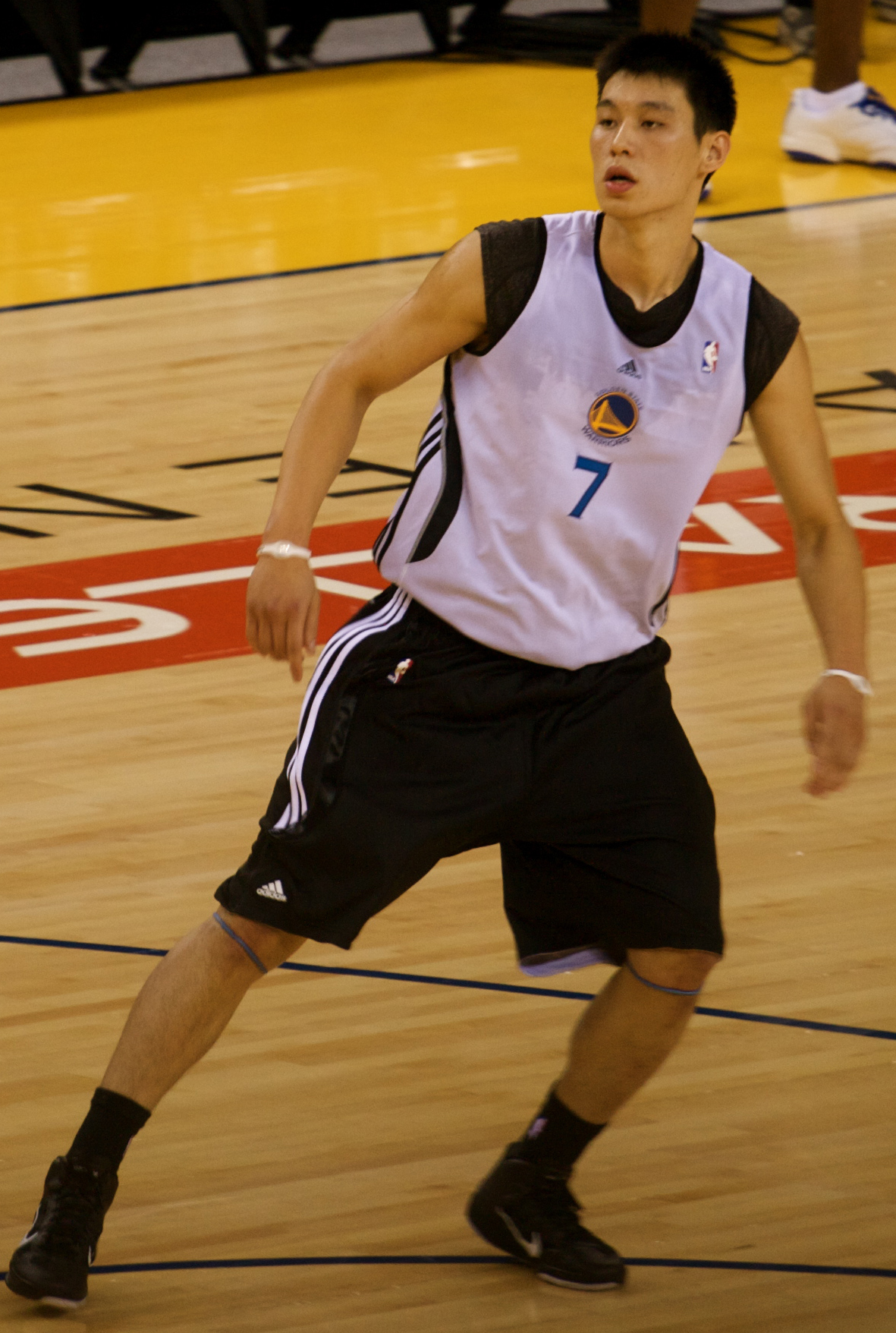 Jeremy Lin at the 2010 Golden State Warriors open practice Bân-lâm-gú: Lîm Su-hô tī Kim-tsiu Ióng-sū-tuī 2010 nî ê liān-si̍p pí-sài. 林書豪佇金州勇士隊2010年的練習比賽。